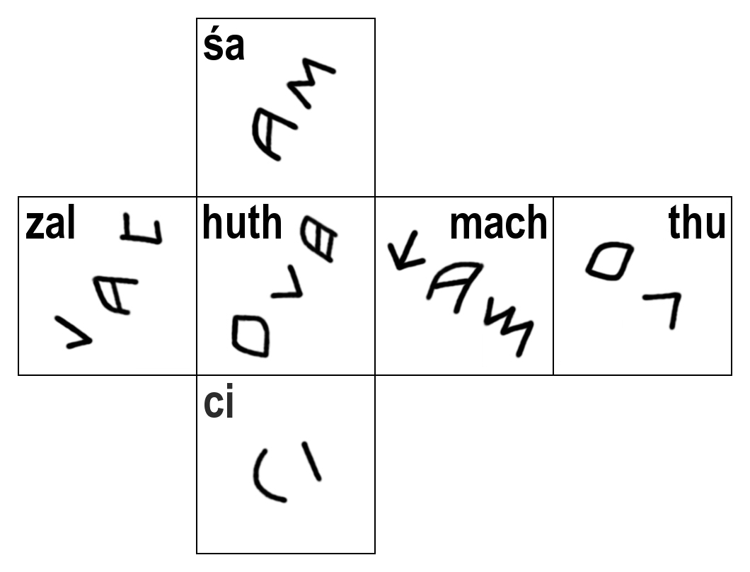 Etruscan dice from Tuscania with etruscan inscriptions and transcriptionsConserved at the Bibliothèque Nationale de France, Paris (inventory number Luynes 816)